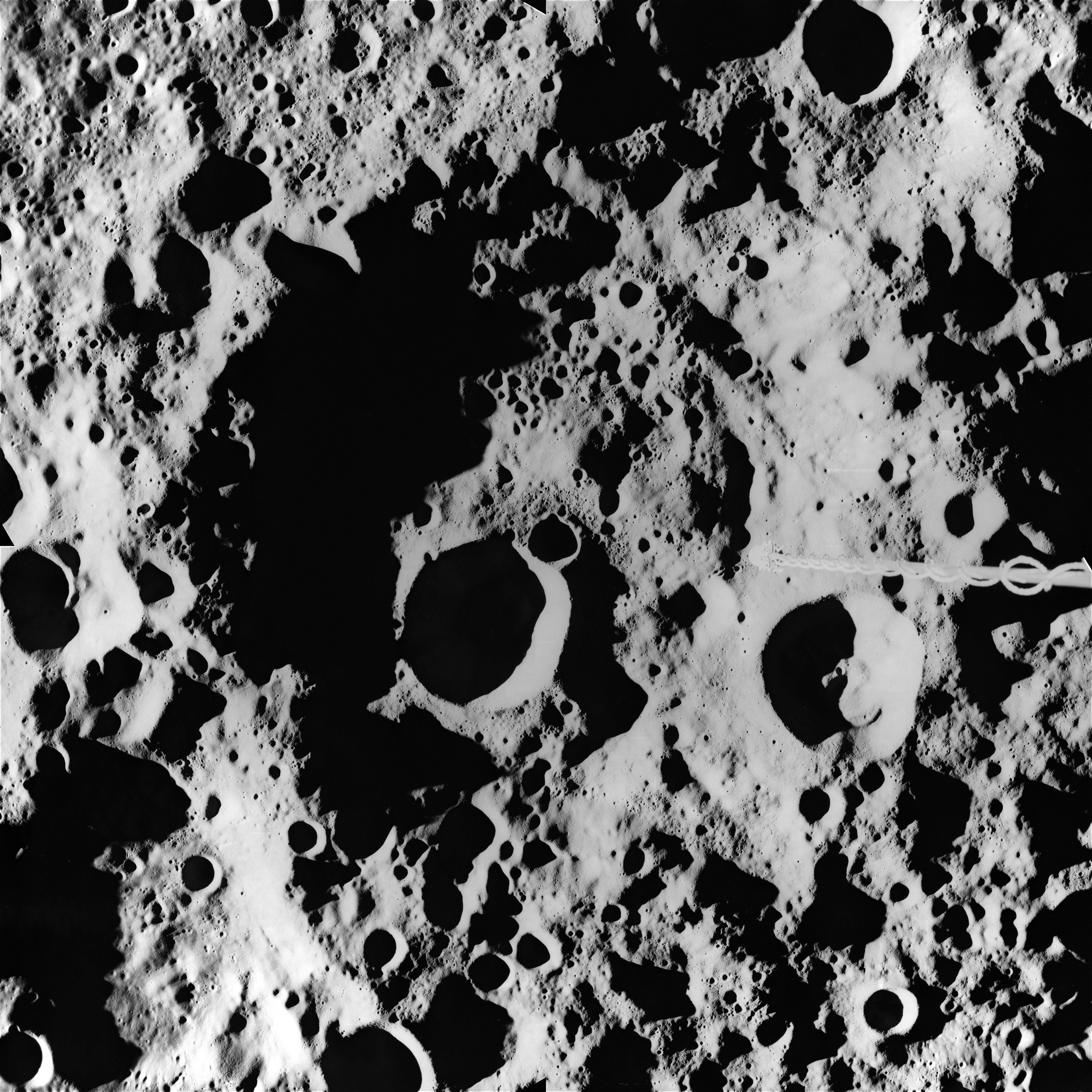 Vetchinkin, on the far side of the moon. Object at right is the gamma-ray spectrometer of the spacecraft. Sun elevation 5 deg. (at left), spacecraft altitude 101 km.